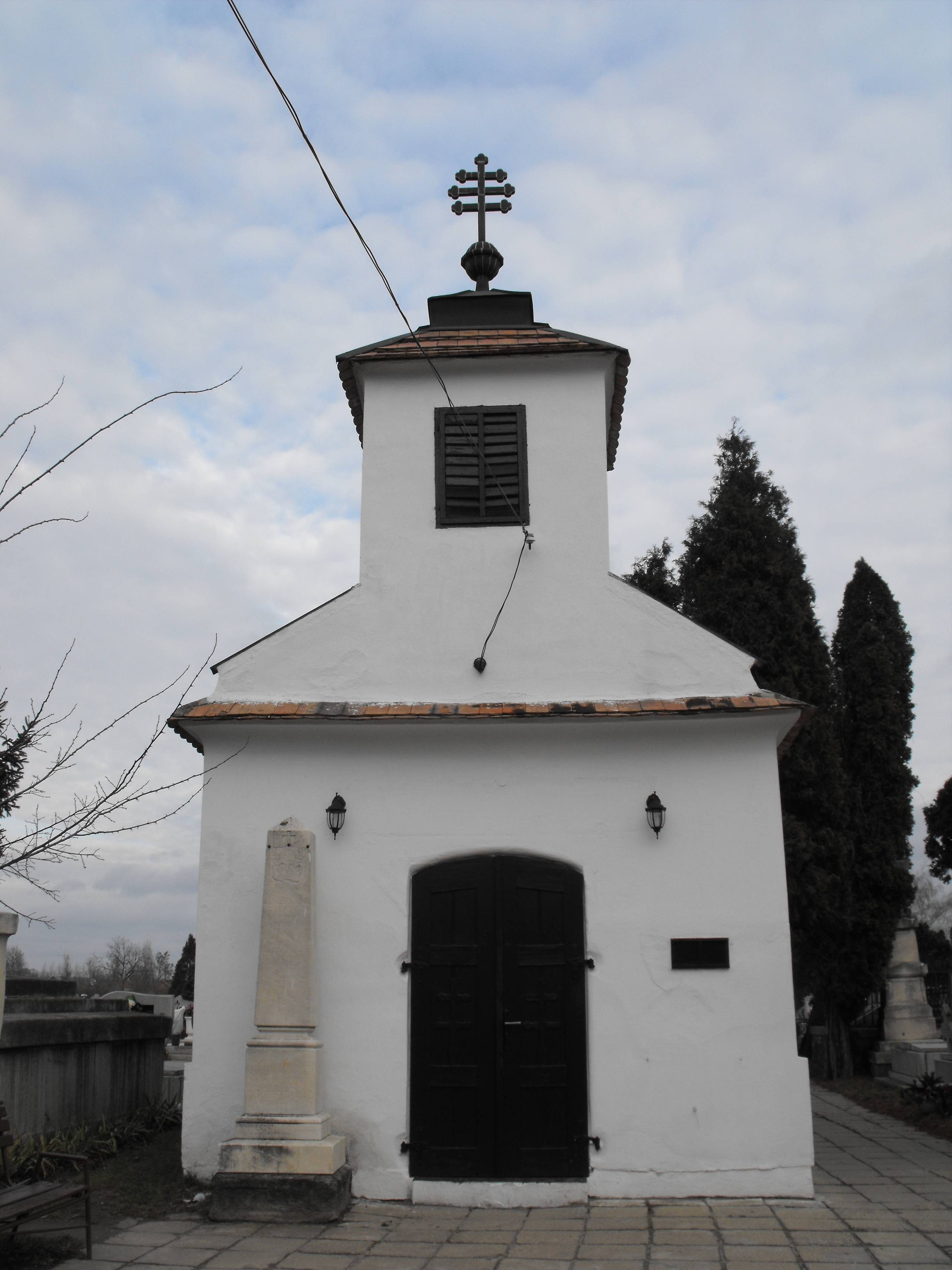 The Greek catholic cemetery chapel in Makó, Hungary.